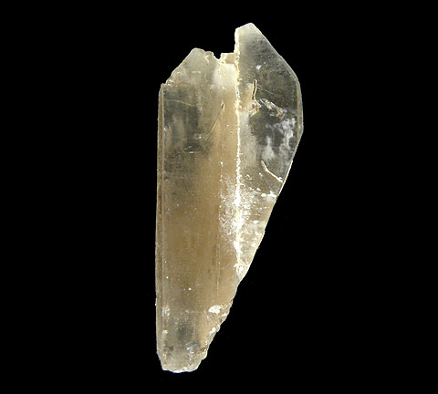 Petalite Locality: Palelni mine, Khetchel village, Molo quarter, Momeik Township, Sagaing District, Mandalay Division, Burma (Myanmar) (Locality at ) Size: 4.3 x 1.8 x 0.9 cm. Typically, Petalite occurs in colorless crystals and is rarely well crystallized. This piece is an excellent crystallized example of the "champagne" colored Petalite from a new find in Burma. This crystal has amazingly sharp, well-defined faces, with great gemminess and consistency of color. It is one of the largest Burmese Petalites that I have handled, and despite the fact that it is not 100% complete, it is a worthwhile gem crystal display specimen that would fit nicely many collections.